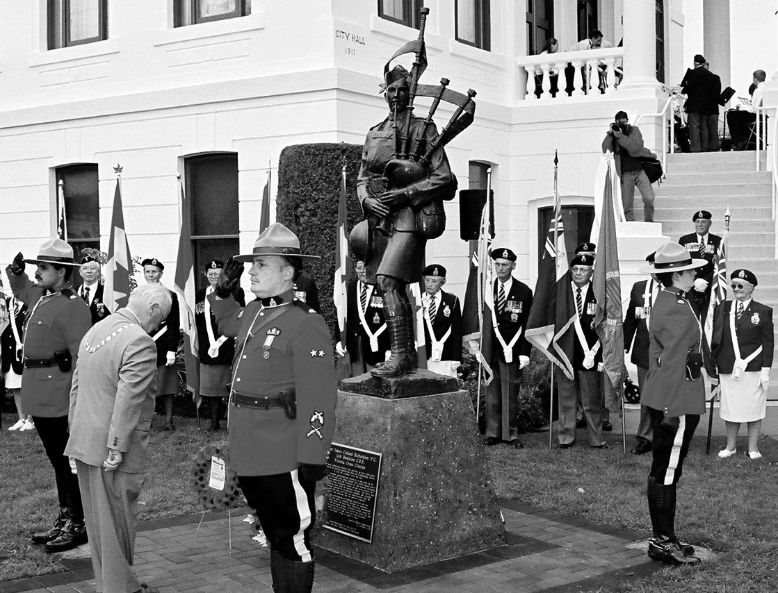 Provost bows at the Piper Richardson statue ceremony in Chilliwack